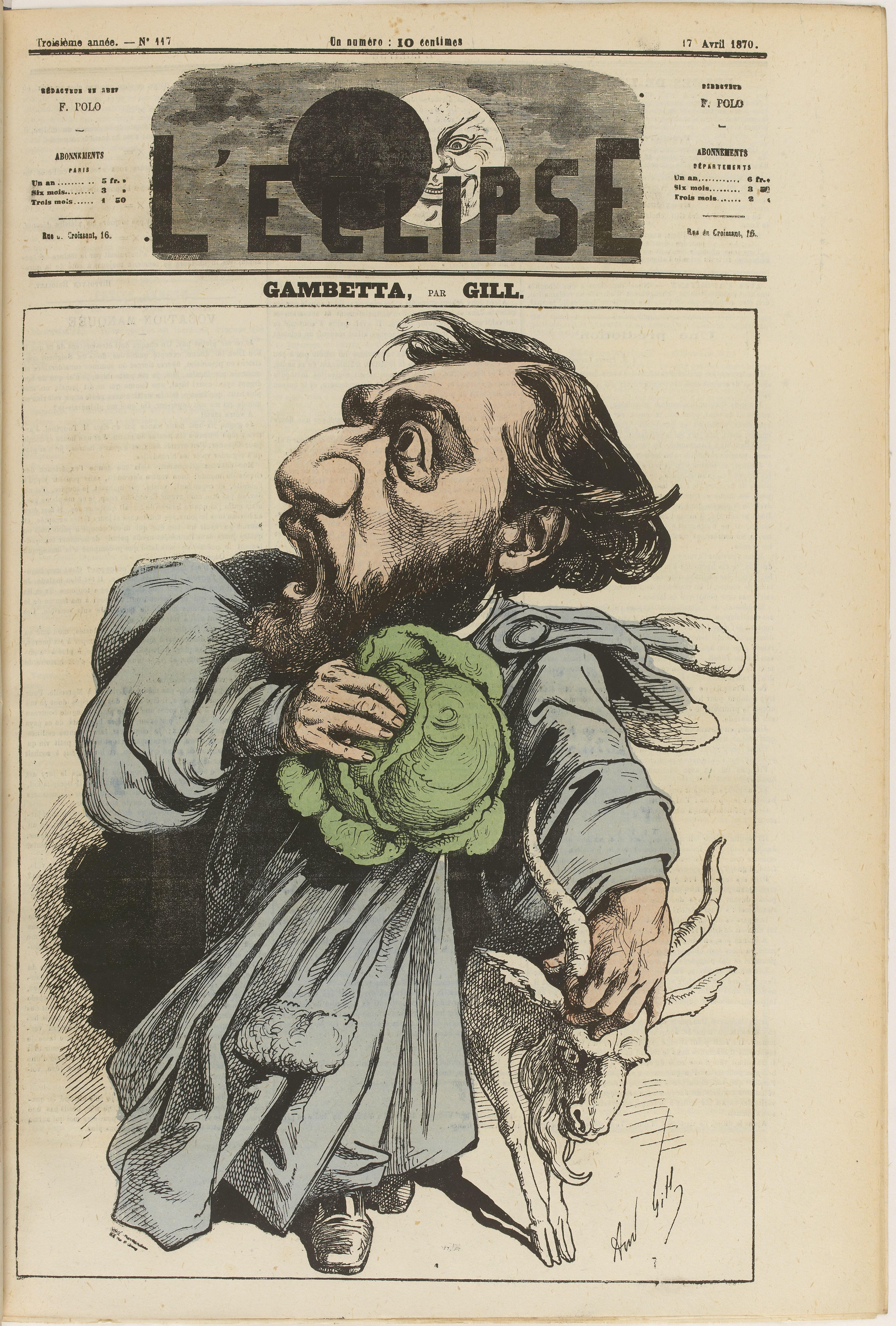 Caricature of Léon Gambetta Cover of L'Eclipse 17 April 1870 Hand-colored Engraving 12"w x 18"h